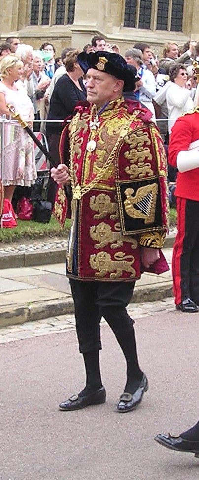 Hubert Chesshyre, Clarenceux King of Arms, in procession to St George's Chapel, Windsor Castle for the annual service of the Order of the Garter.